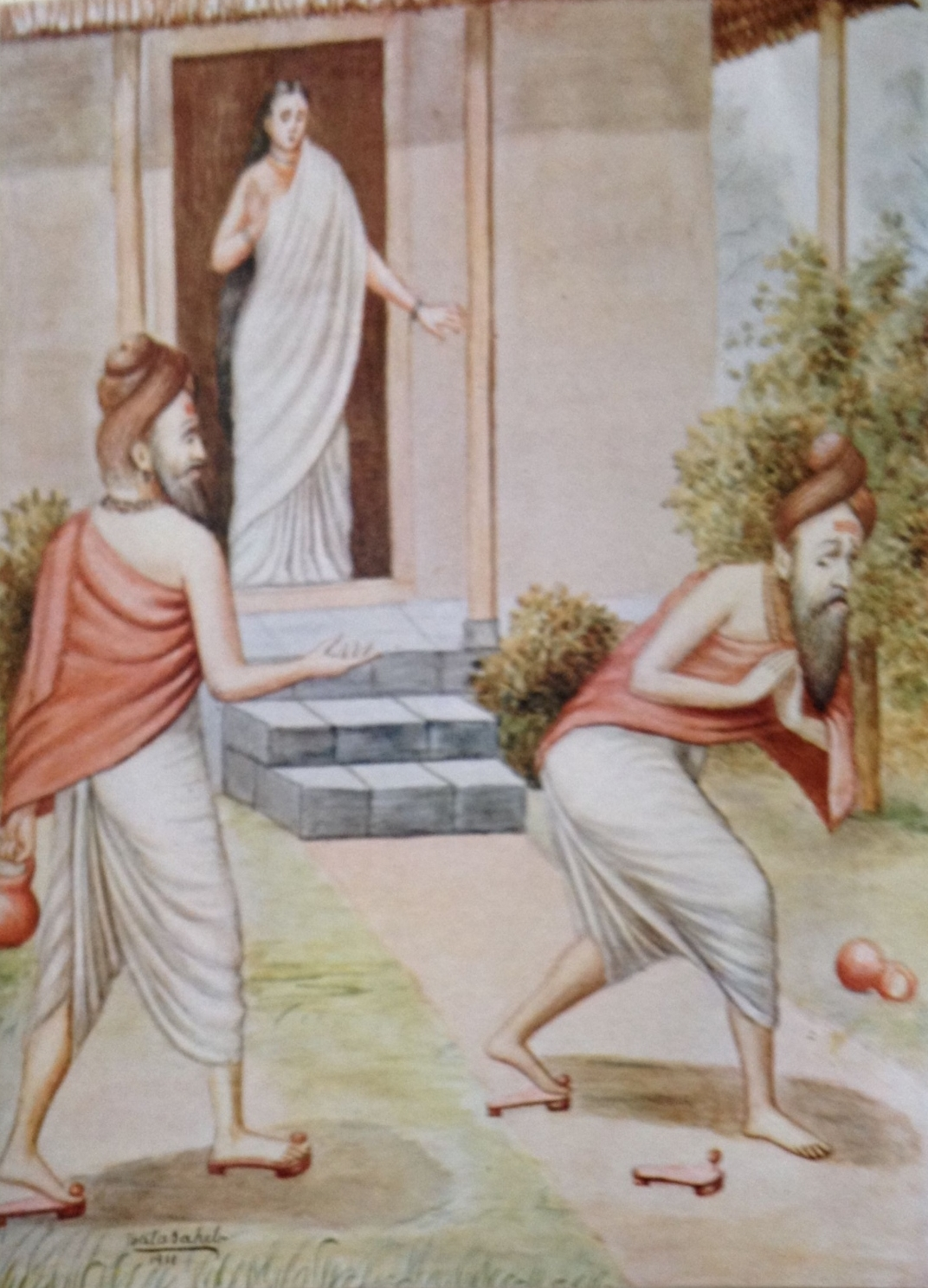 Chitra Ramayana (Illustrated Ramayana) is a simplified story of the great Indian epic in Kannada. The type is bold and beautiful. The thick pages have become brittle and need careful handling. Printed by B. Miller, Superintendent, British India, Press, Mazgaon, Bombay. It was published by, Shrimat Balasaheb Pandit Pant Pratinidhi, chief of Aundh, at Aundh, Satara district. The Kannada version is by Ramachandra Madhwa Mahishi